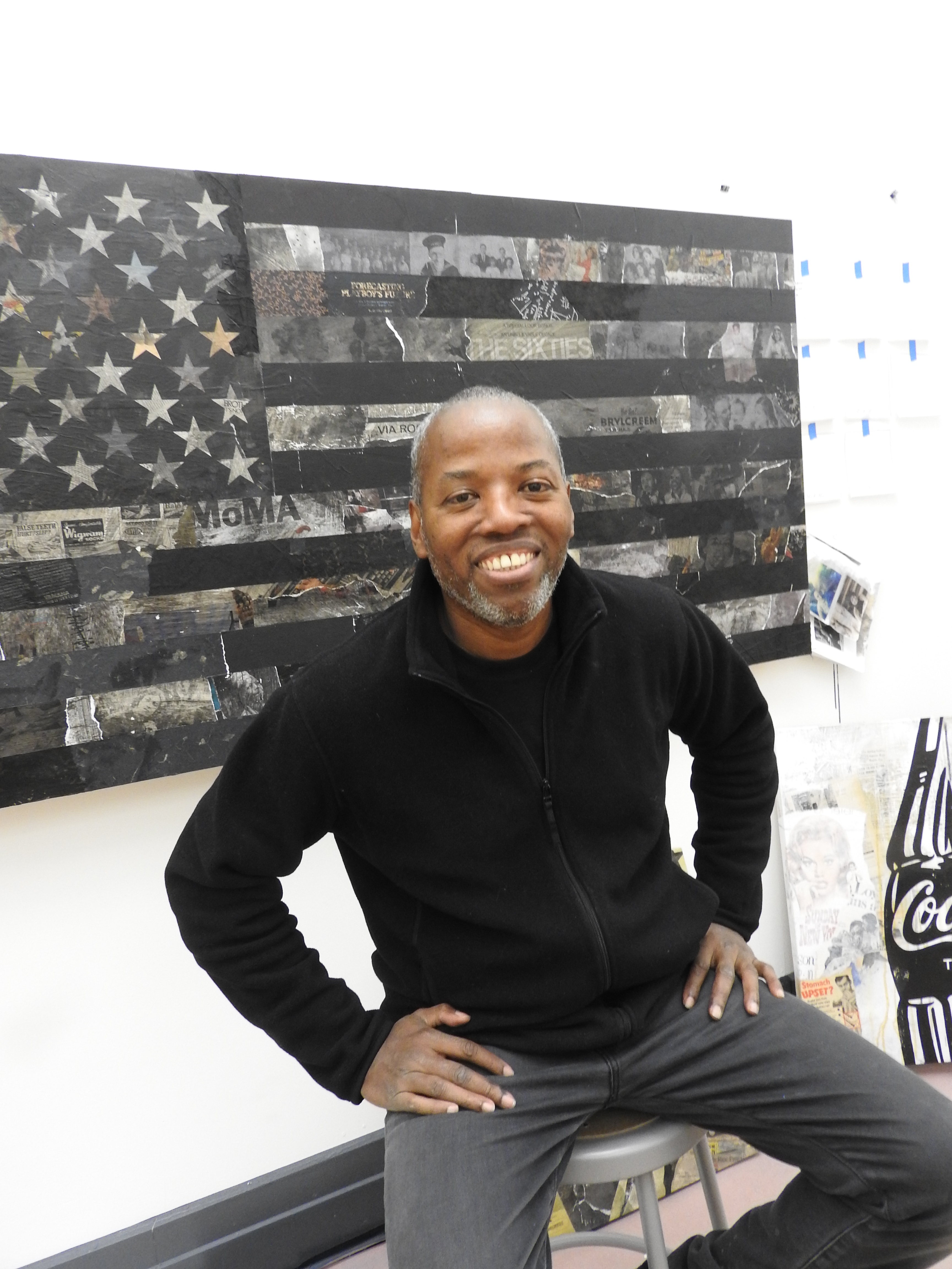 Artist Cey Adams in his studio